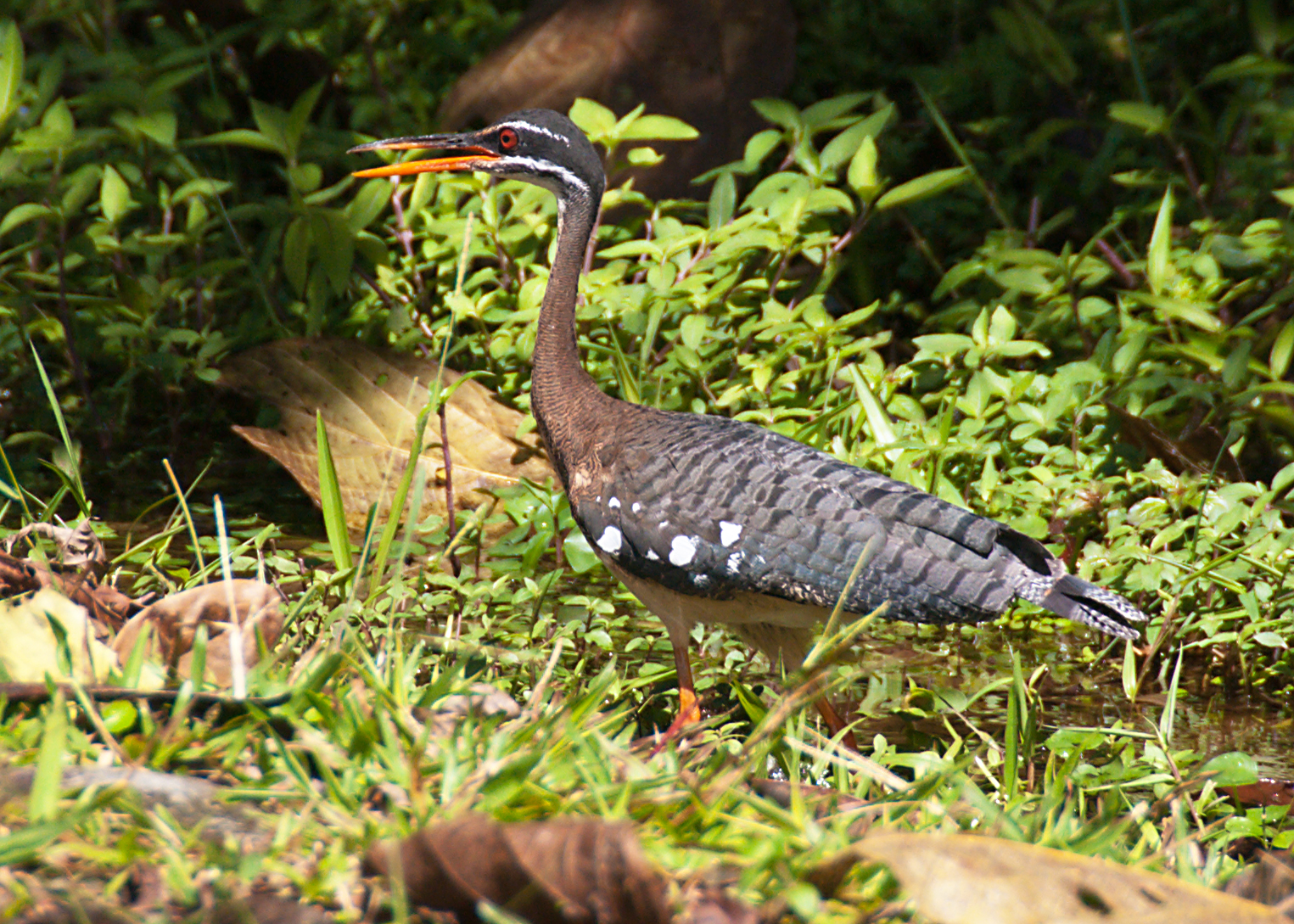 Sunbittern Eurypyga helias, Tapanti NP, Costa Rica